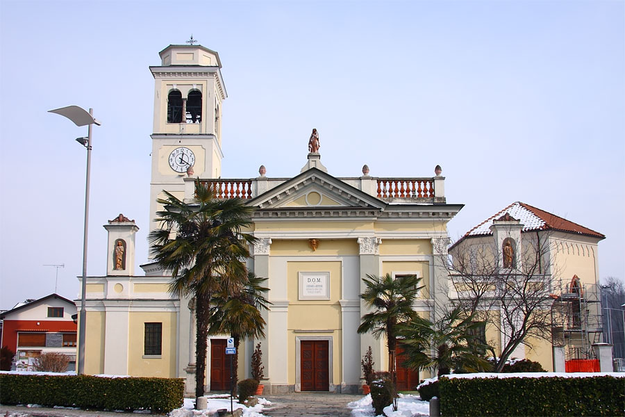 Parish Church, Prato Sesia, Novara, Italy